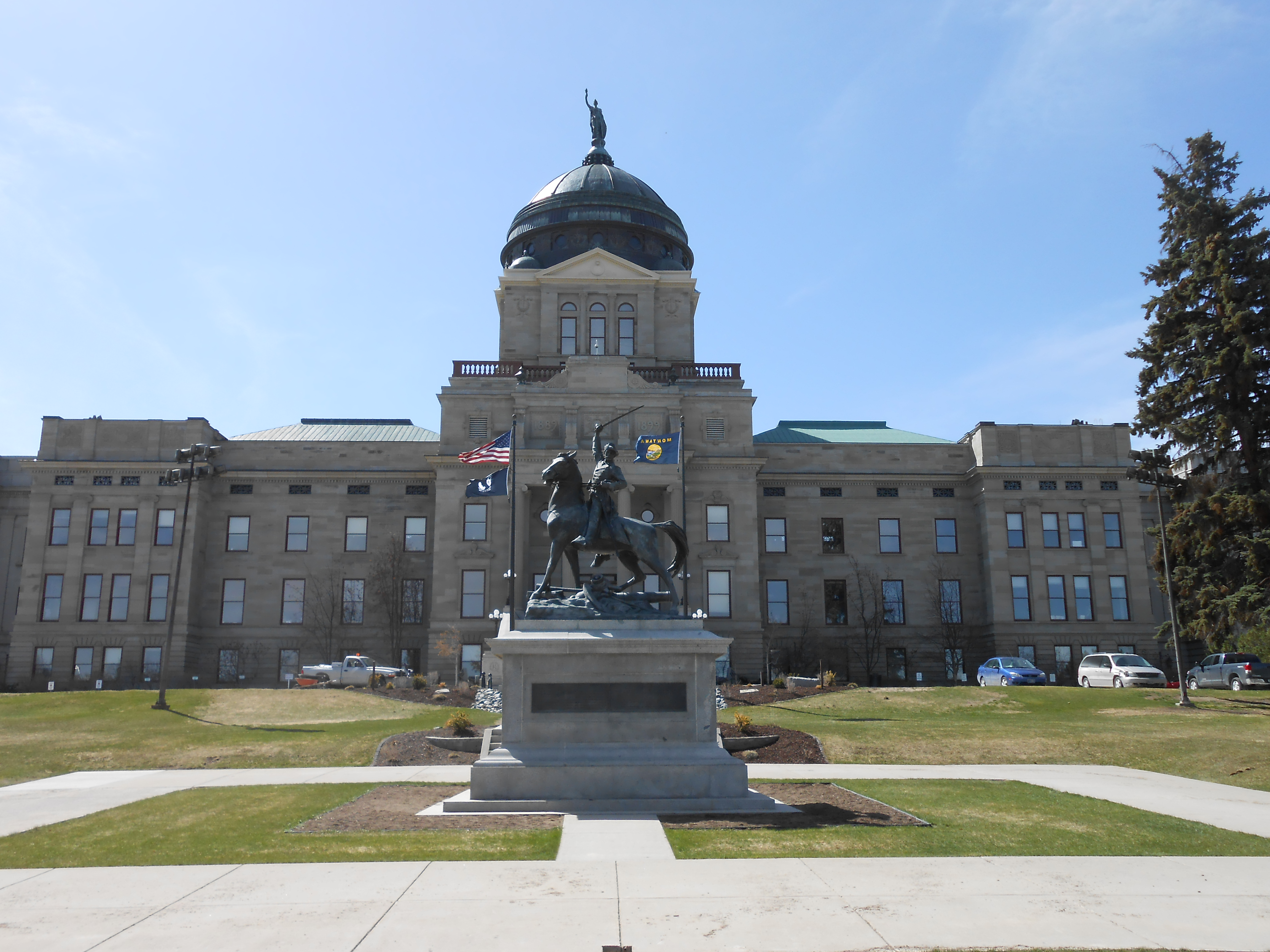 Thomas Francis Meagher statue in front of Montana Capitol, 2013